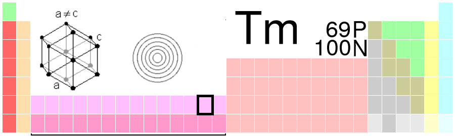 This image was copied from . The original description was: From Image:Tm-TableImage.png